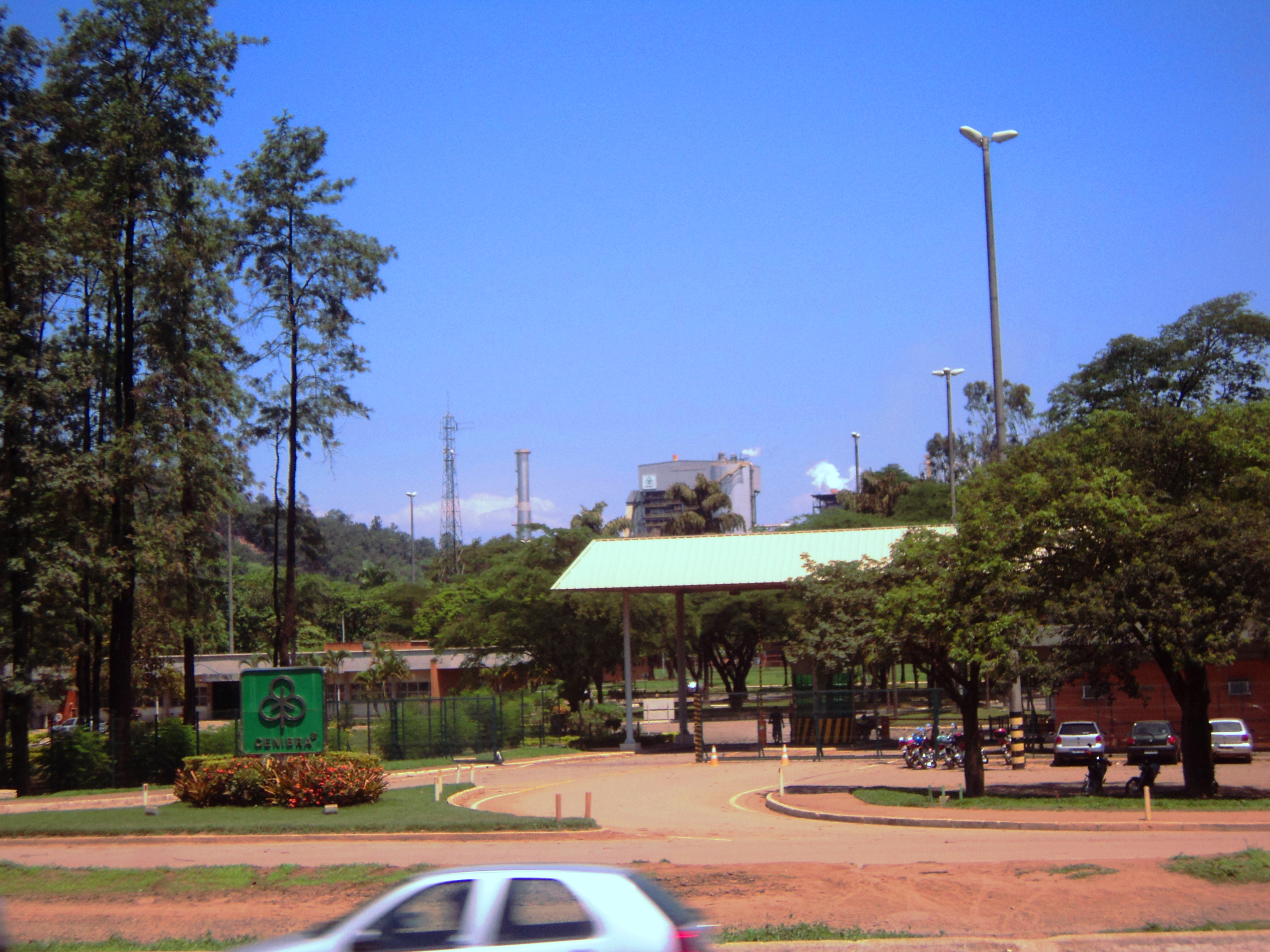 The entrance of the Cenibra, in Belo Oriente, Minas Gerais, Brazil.